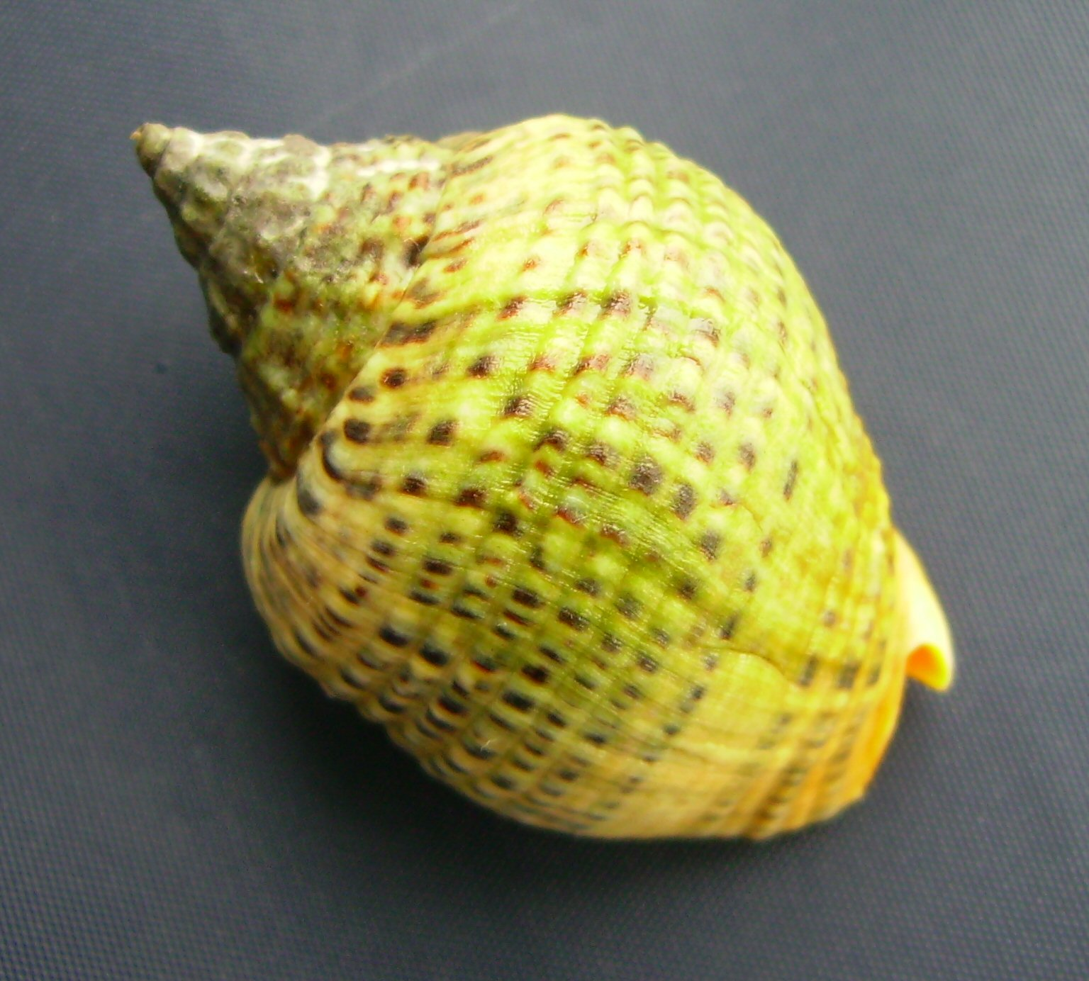 Cominella adspersa (speckled whelk), from Auckland, New Zealand. This work has been released into the public domain by its author, Graham Bould. This applies worldwide.In some countries this may not be legally possible; if so:Graham Bould grants anyone the right to use this work for any purpose, without any conditions, unless such conditions are required by law.